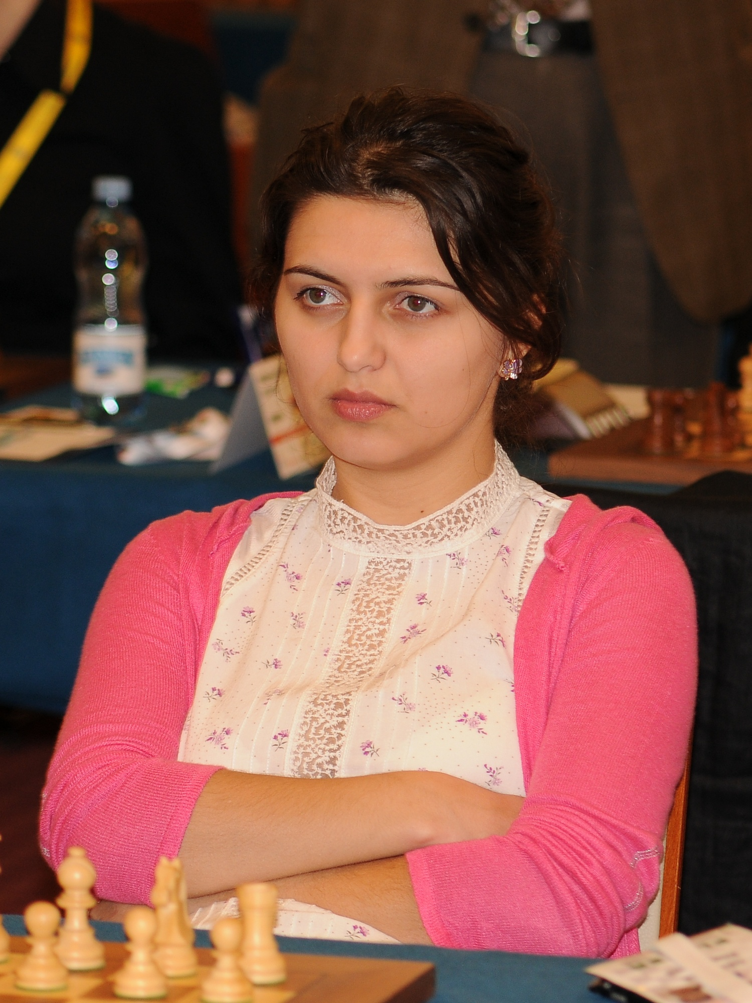 IM Bela Khotenashvili, European Chess Team Championship Warsaw 2013